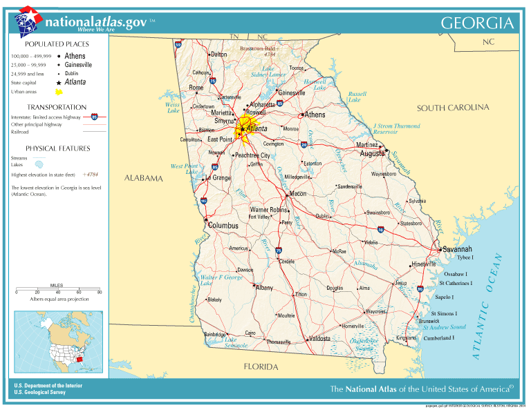 National Atlas of the United States Georgia